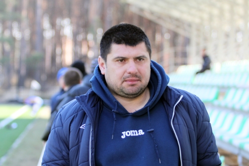 Volodymyr Mazyar is a retired Ukrainian football player who currently is a coach.